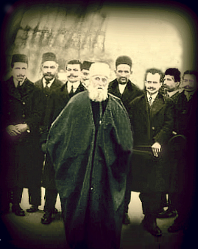 Abdul-Baha in Paris 1913, surrounded by leading Baha'is beneath the Eiffel Tower.